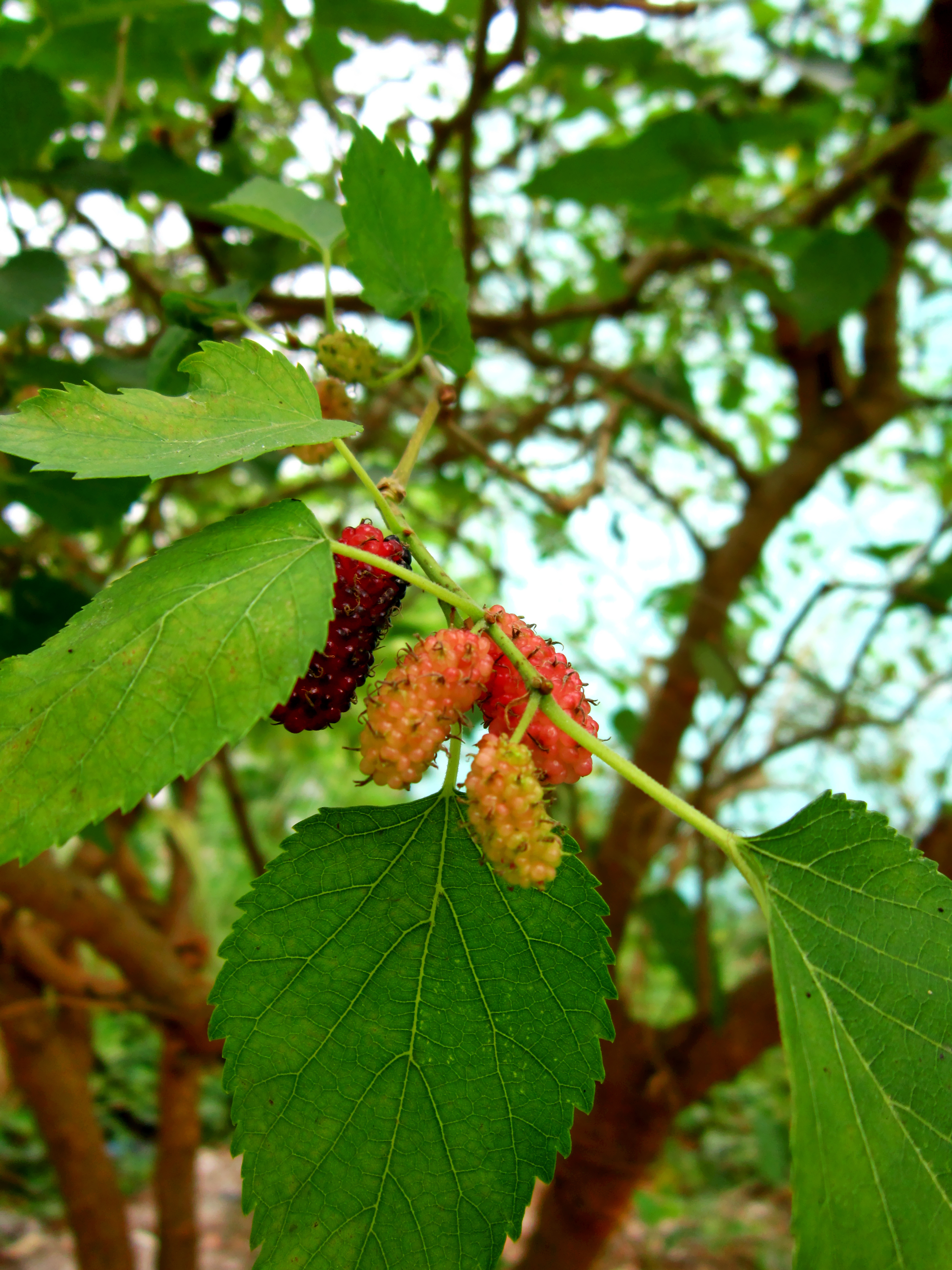 Một nhánh dâu tằm với những quả chín (đỏ) và gần chín (vàng cam). Ảnh chụp tại Long Xuyên, An Giang, Việt Nam.